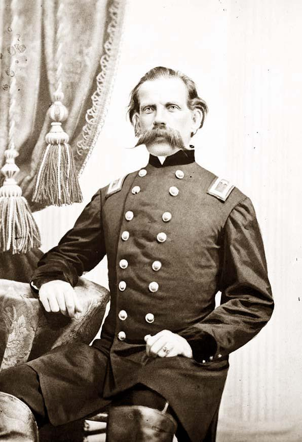 Brevet Brigadier General Gilbert Marquis LaFayette Johnson, 13th Indiana Cavalry RegimentU.S.A.